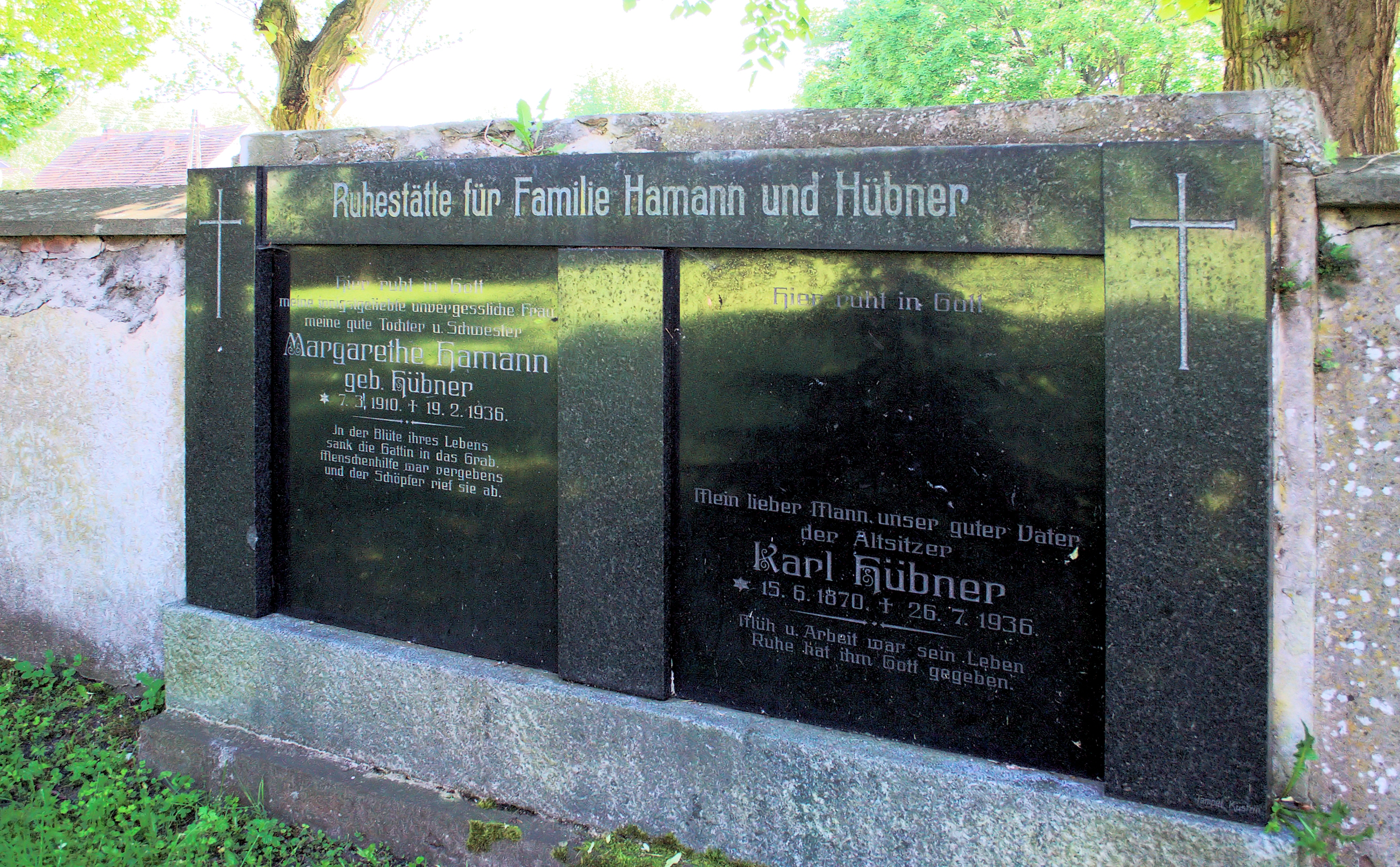 Former cemetery in church walls, Dargomysl